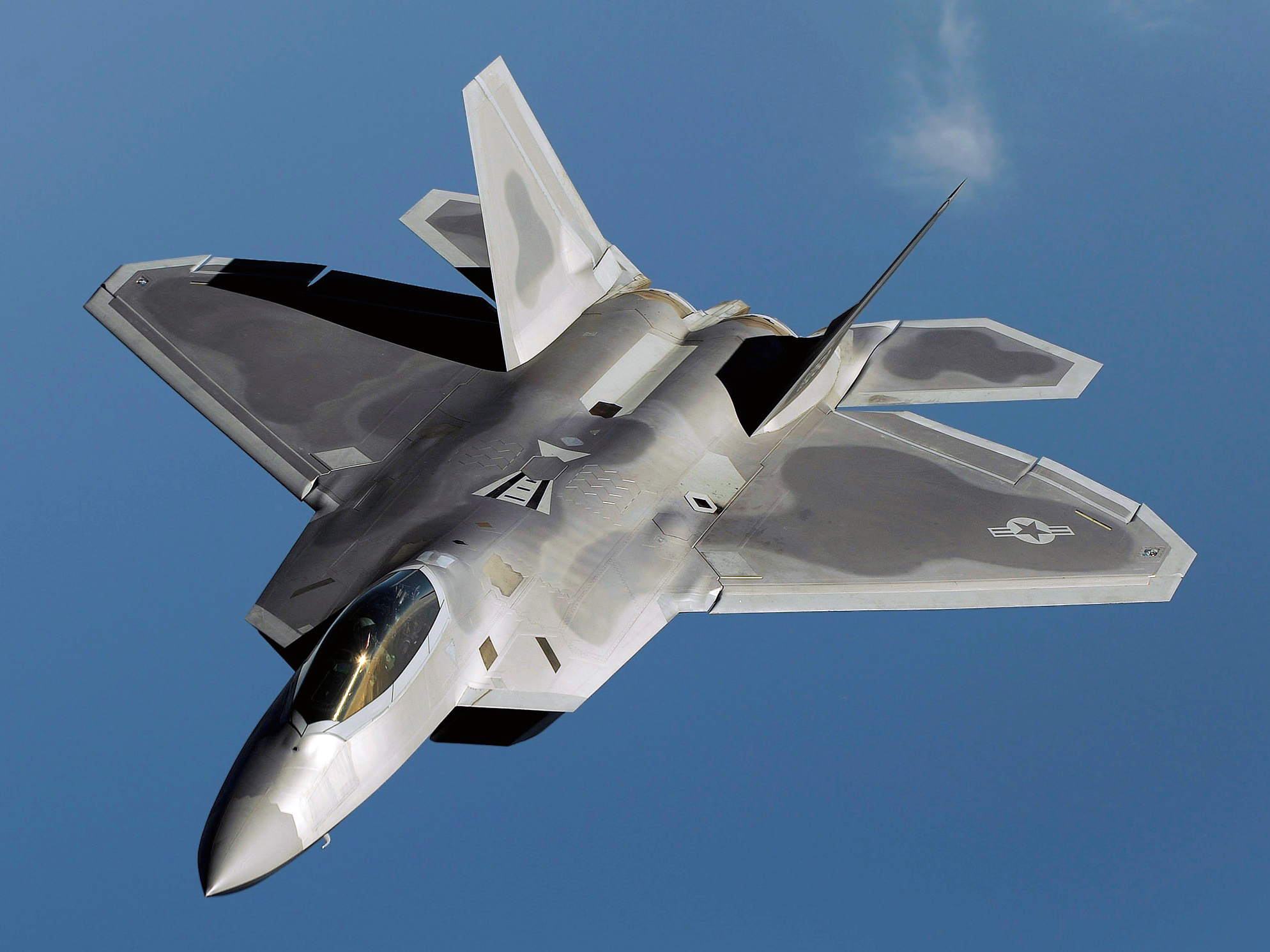 An F-22 Raptor flies over Kadena Air Base, Japan, Jan. 23 2009 on a routine training mission. The F-22 is deployed from the 27th Fighter Squadron at Langley Air Force Base, Va.